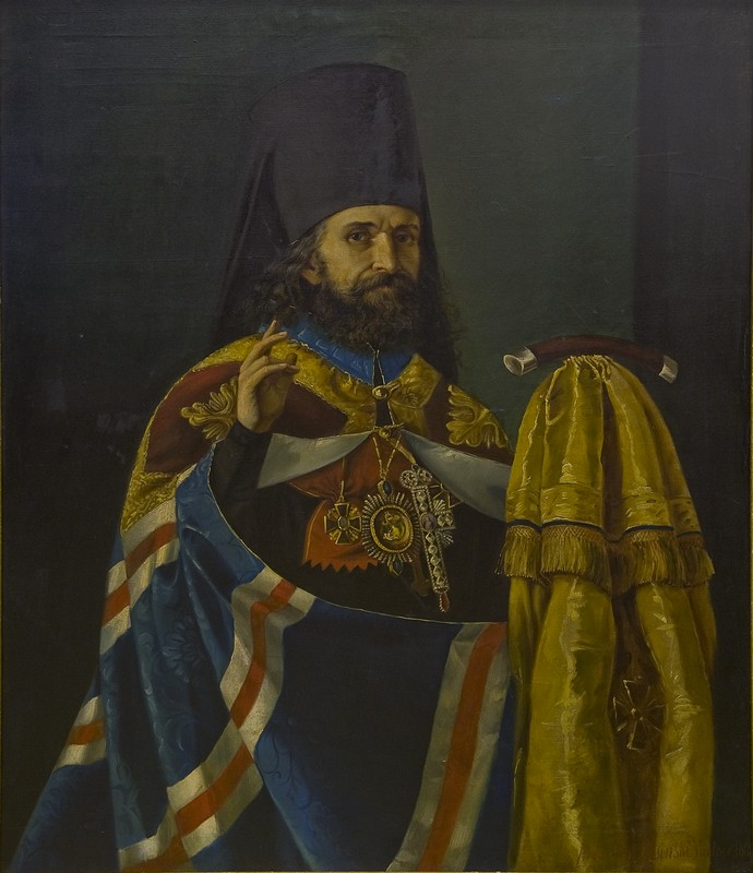 Agafangel (Soloviev)